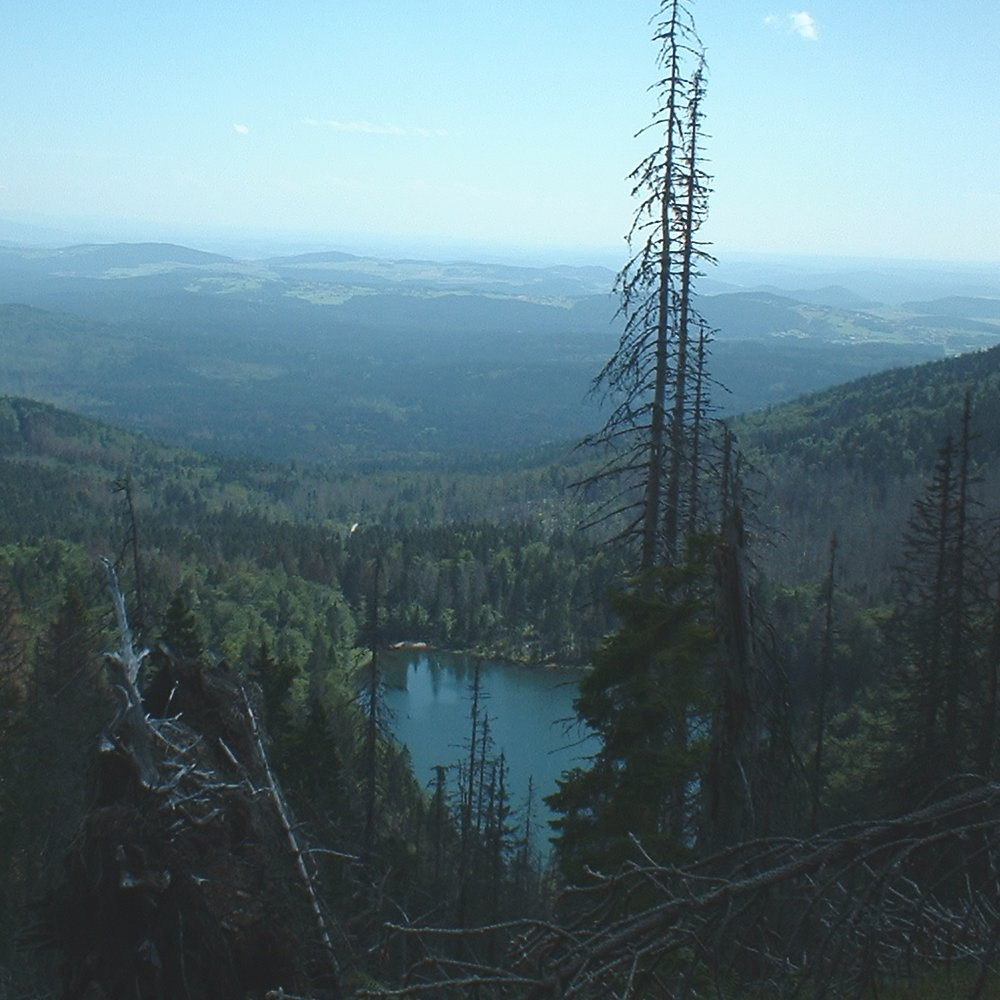 Rachel lake